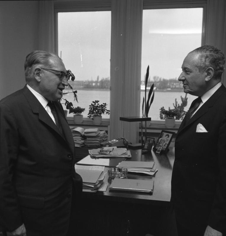 Bundestagsvizepräs. Dr. Dehler empf. Prof. Curt C. Silberman Präs. der American Federation of Jews from Central Europe